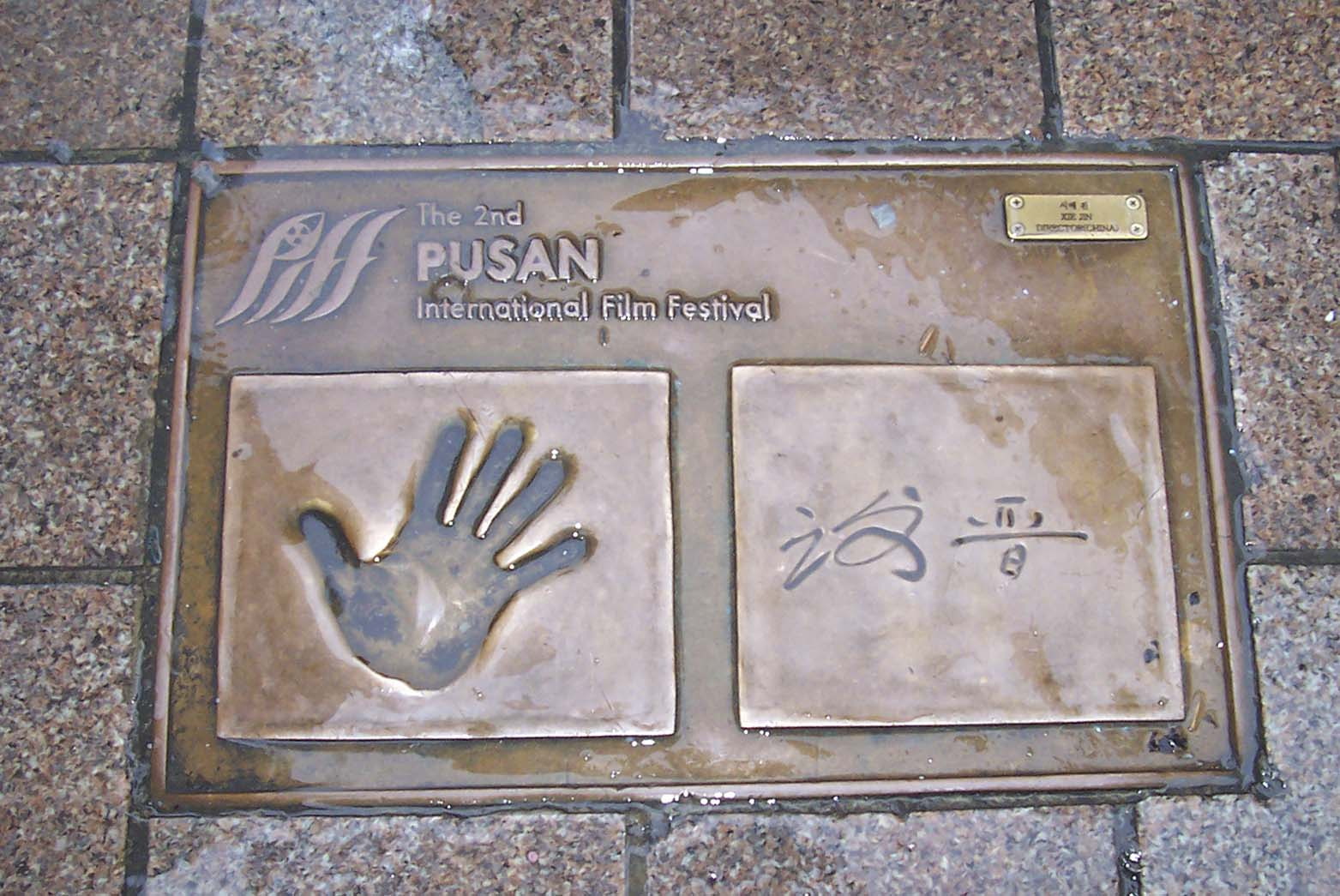 Xie Jin, BIFF, Busan